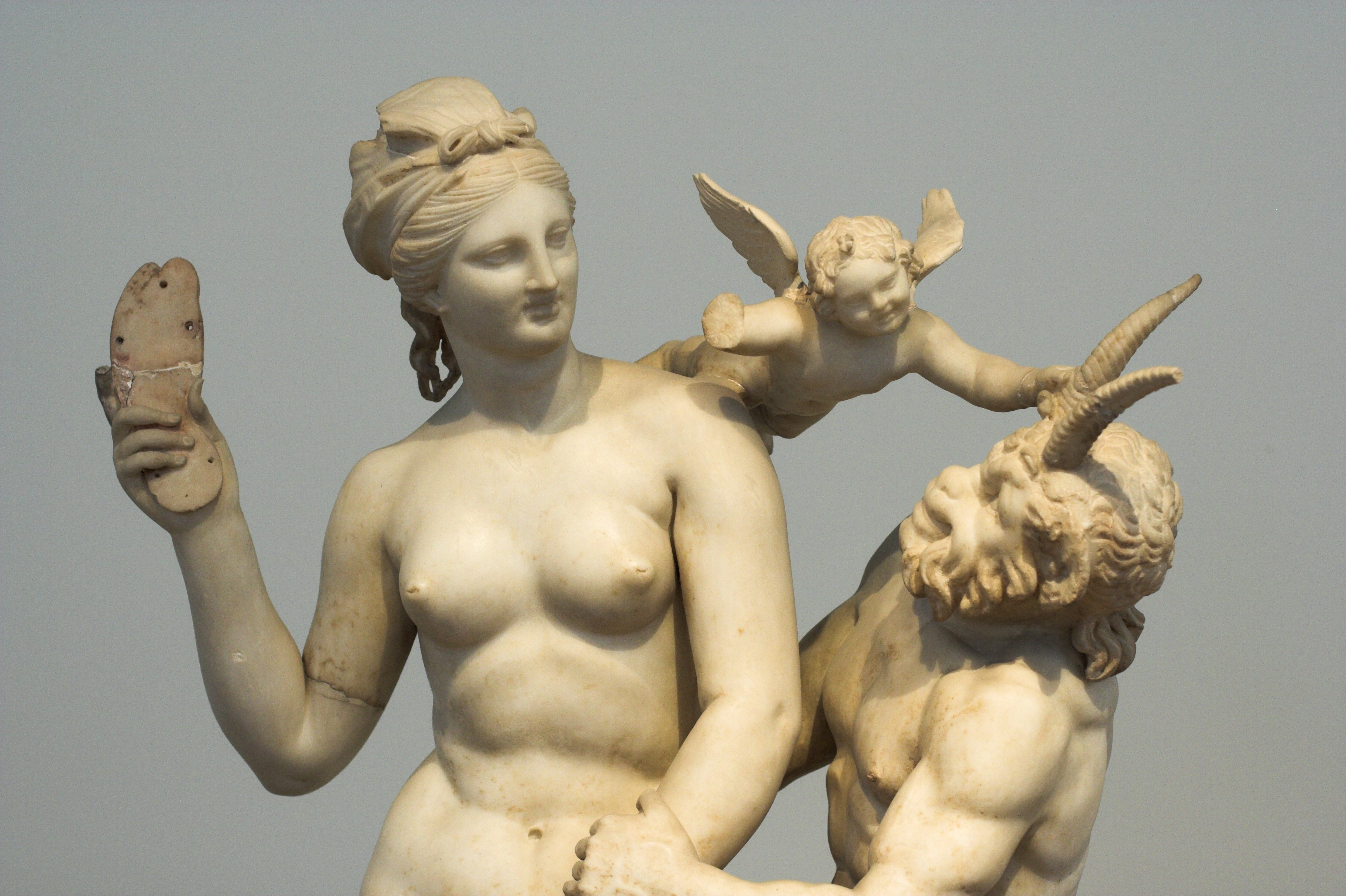 Aphrodite, Pan and Eros. The sculpture height 1.55 m, parian marble, circa 100 BC. Finding: Delos, Establishment of the Poseidoniasts of Beirut. National Archaeologicka Museum in Athens N3335.